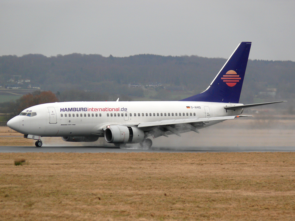 A Boeing 737-700 (D-AHID) of the german airline Hamburg International reversing after landing at Ängelholm airport in Sweden.